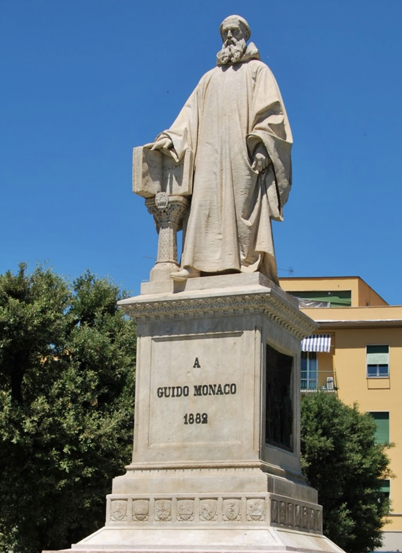 Statue of Guido Monaco in Arezzo